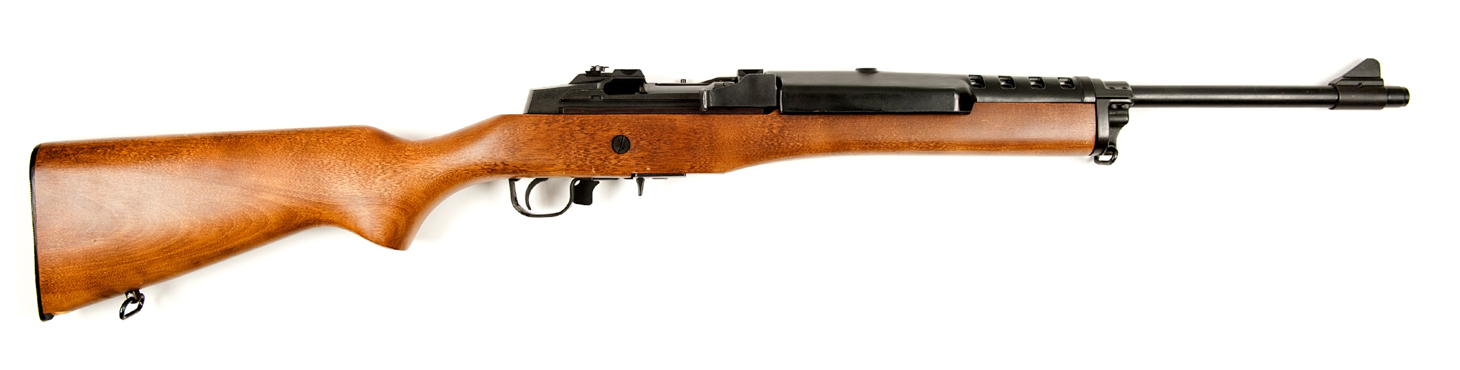 Picture of Ruger Mini Thirty: Make: Ruger Model: Mini Thirty Caliber: 7.62x39mm